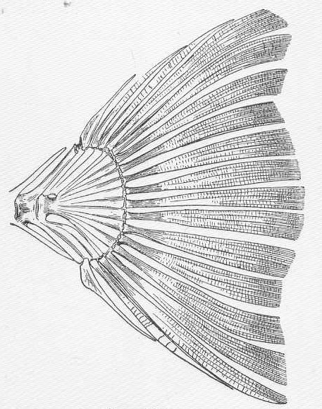 Homocercal tail of a Flounder, Paralichthys californicus Subject: Flatfishes--Anatomy Tag: Fish